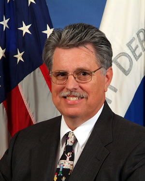 Official United States Department of Transportation photo of Joseph H. Boardman as Administrator of the Federal Railroad Administration.